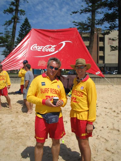 John and Steven on patrol with the Manly Life Saving Club. Many of the members of the swimming group that became "In Latte Veritas" met through the Manly LSC.